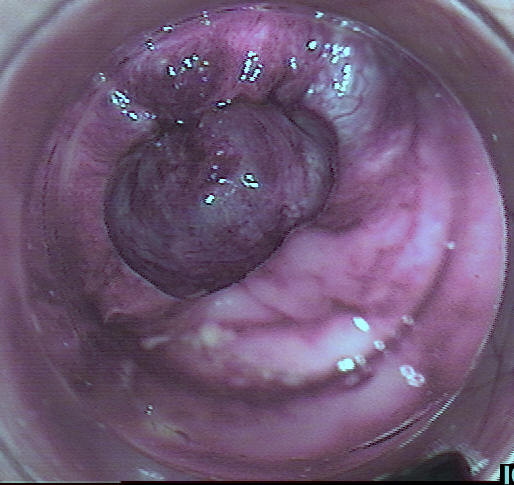 Hemorrhoids band ligation